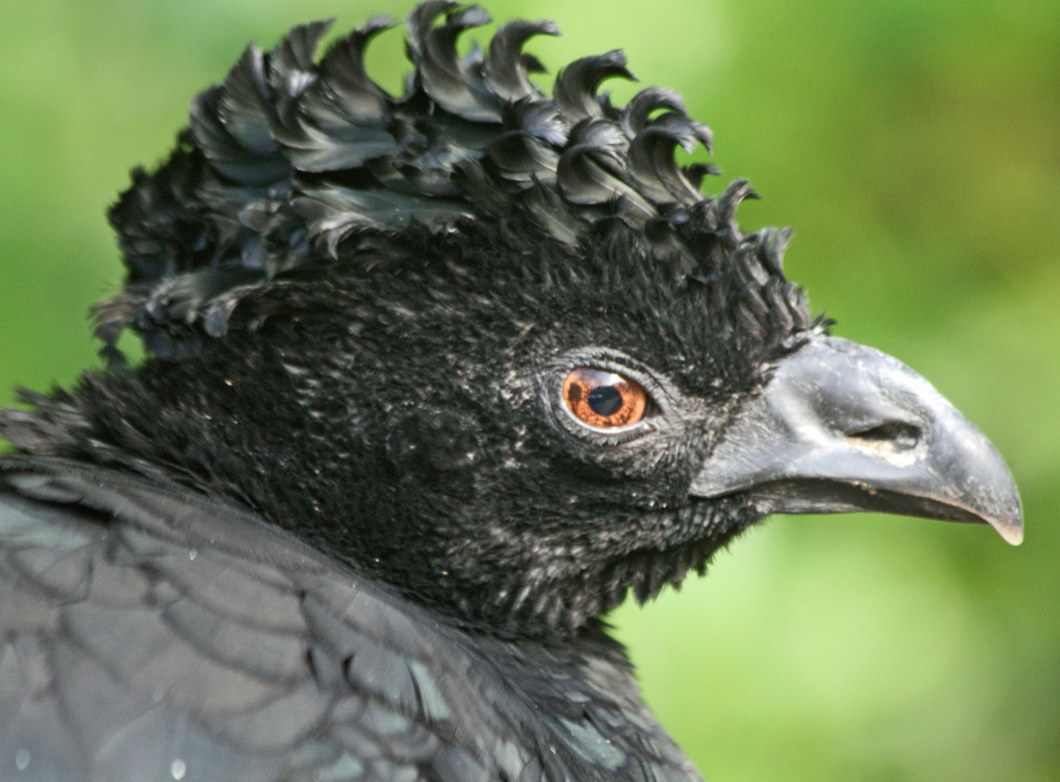 Female Yellow-knobbed Curassow (Crax daubentoni) - Sylvan Heights Waterfowl Park, Scotland Neck, North Carolina